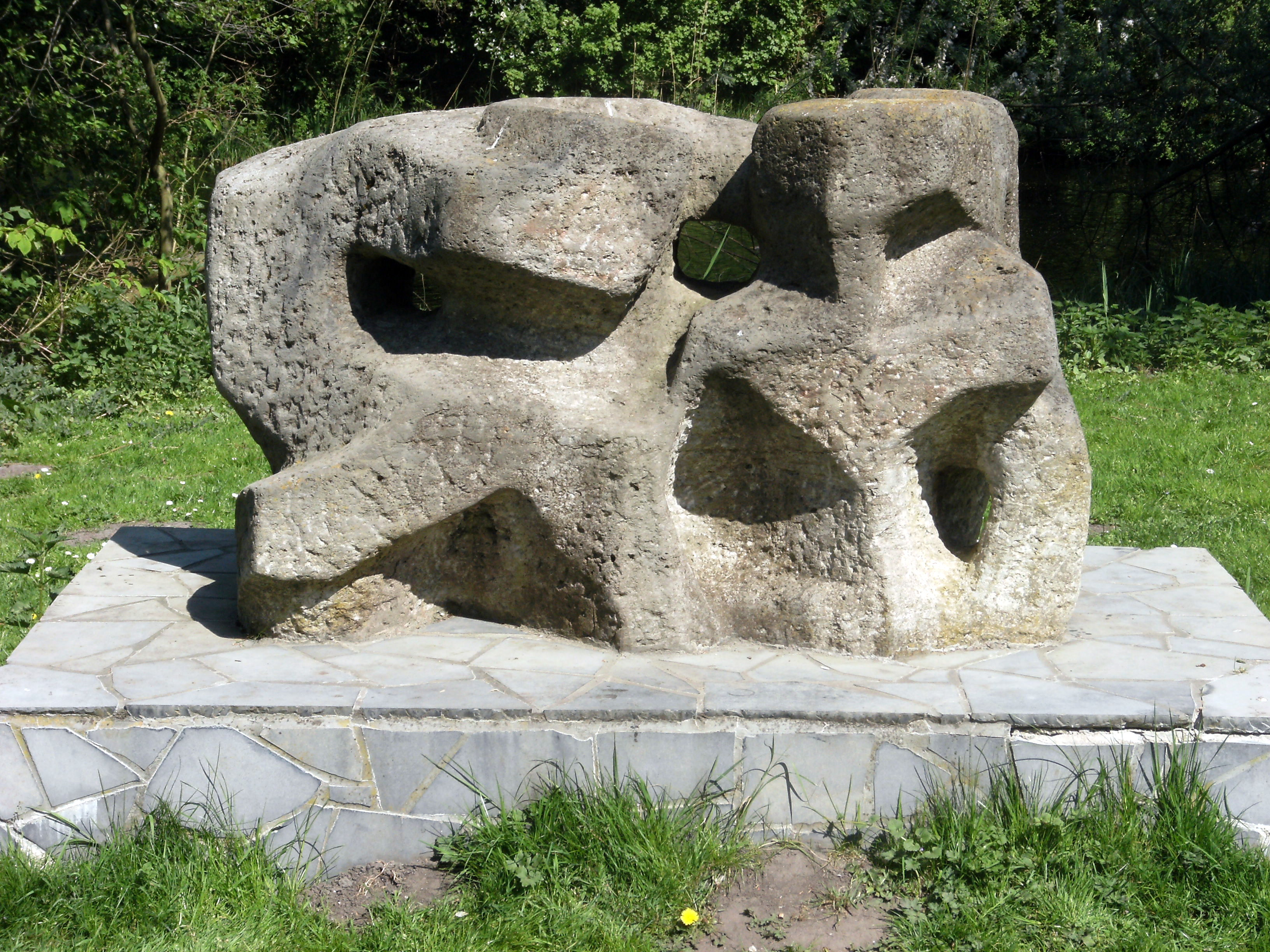 2011-04- 25 in Amsterdam; Sculpture in Piet Wiedijkpark.